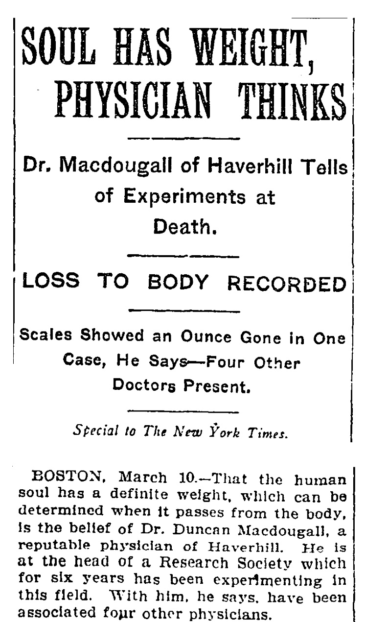 Scanned section of NYT article from 1911; it's the origin of the "the soul weighs 21 grams" meme.